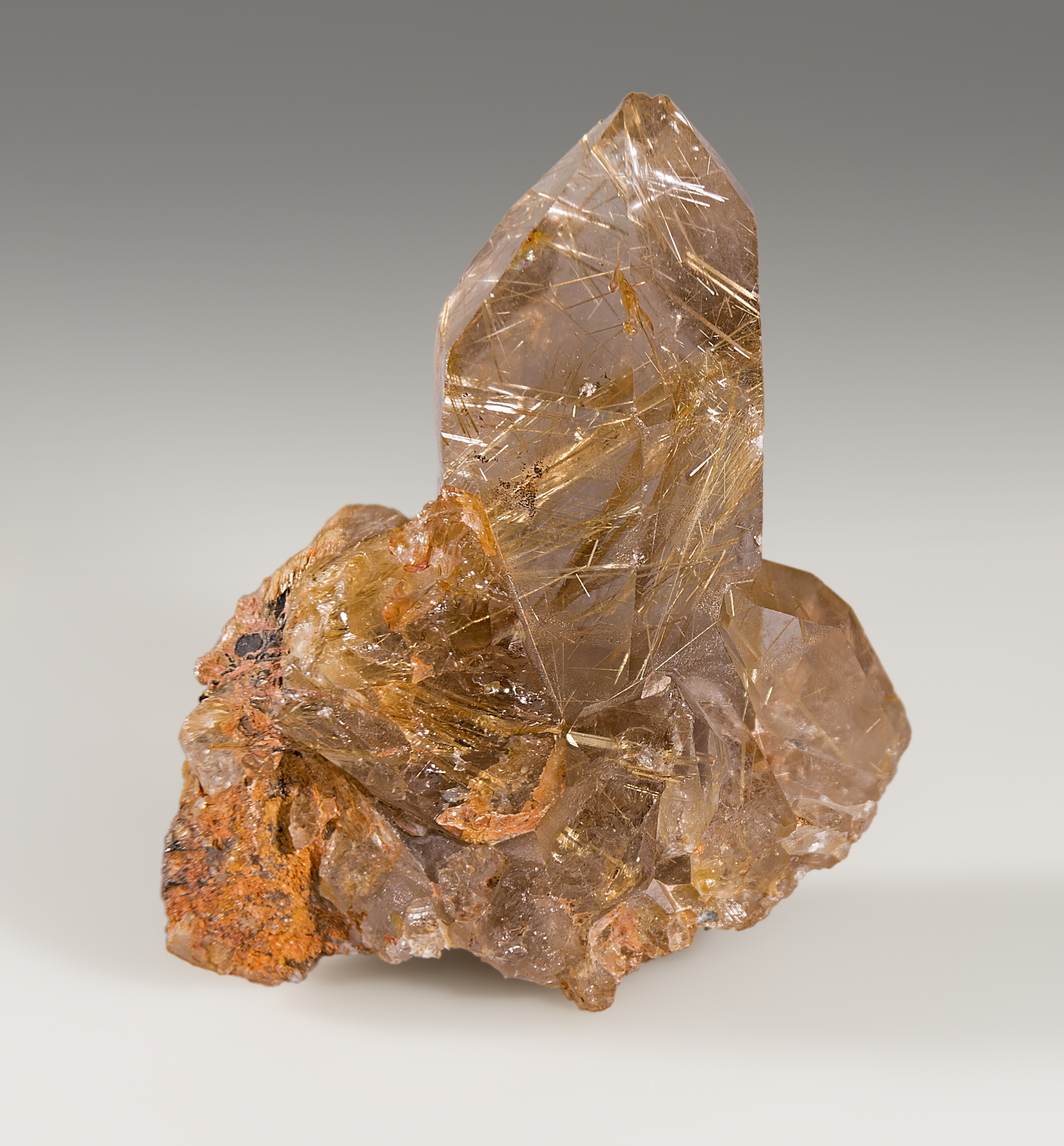 Rutilated quartz